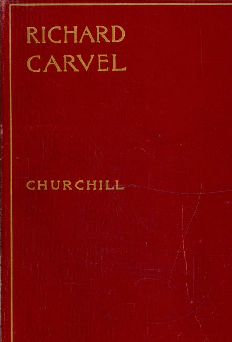 Front cover 1899 novel, Richard Carvel